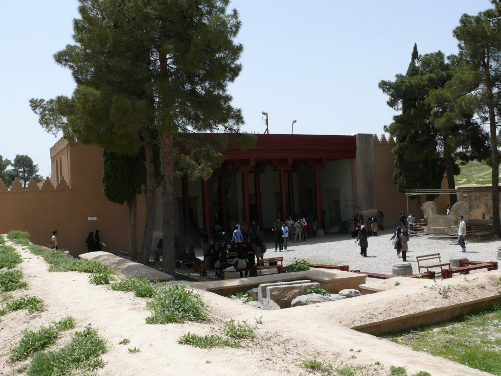 Front view of the Persepolis museum, Iran